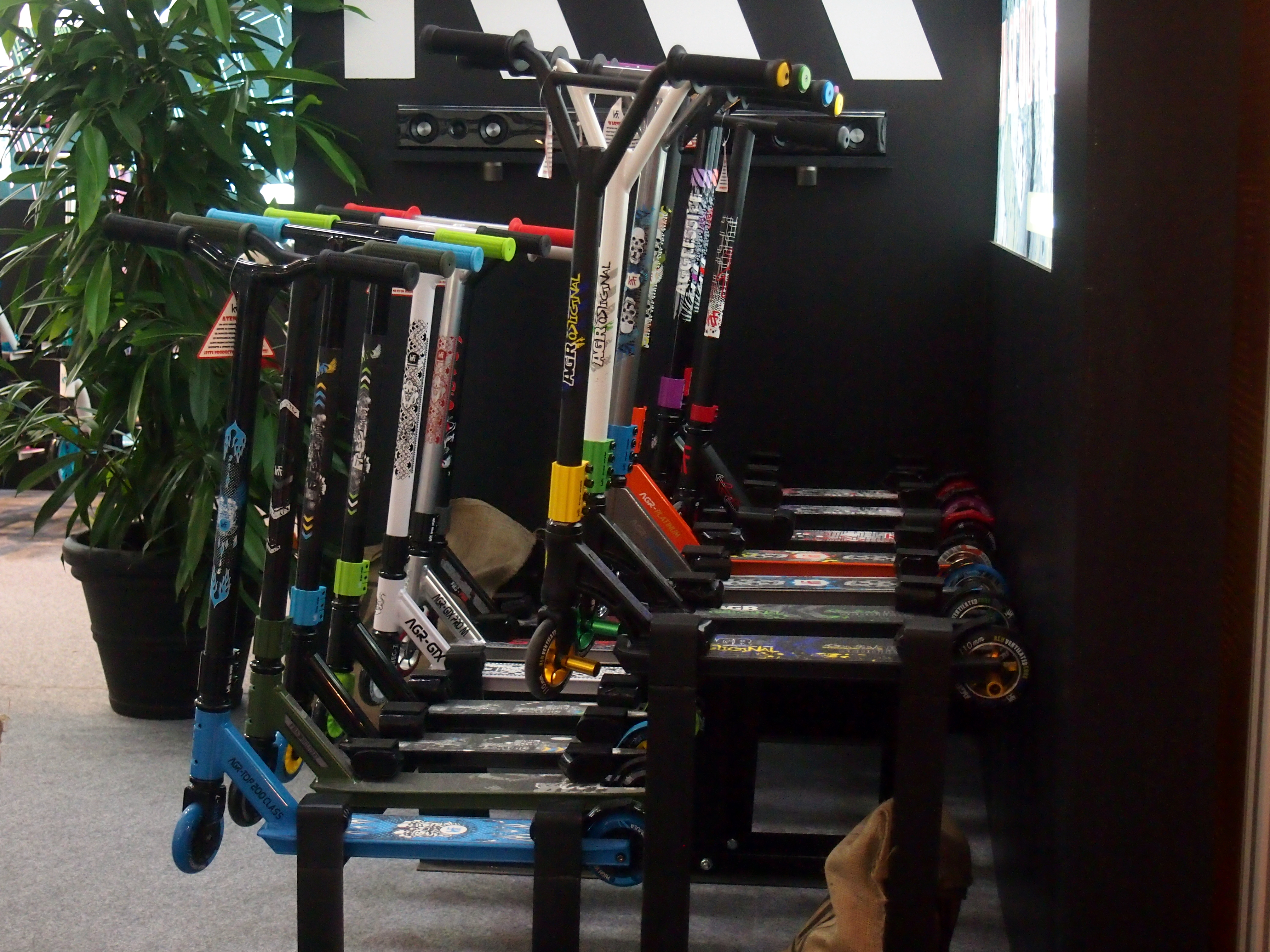 Kick-Scooter of spanish brand KRF at ISPO 2014 Munich